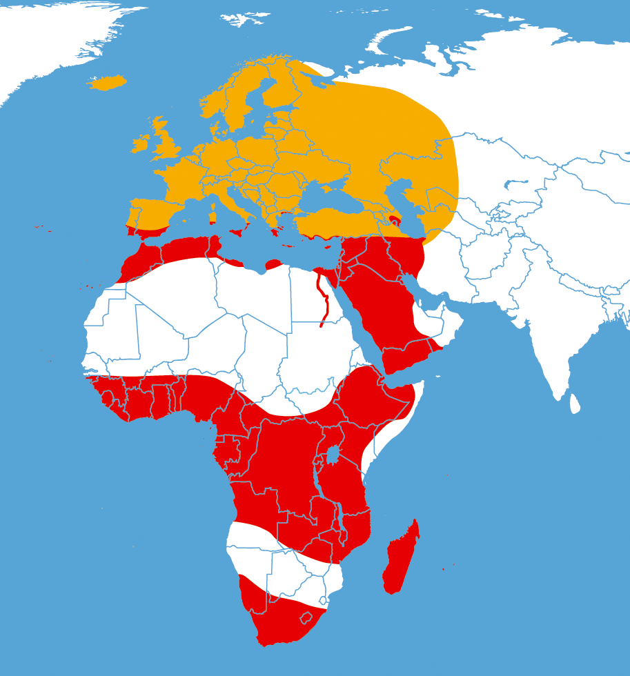 Distribution map of Acherontia atropos;red: all year distribution; orange: summer distribution possible This map has been made or improved in the German Kartenwerkstatt (Map Lab). You can propose maps to improve as well.